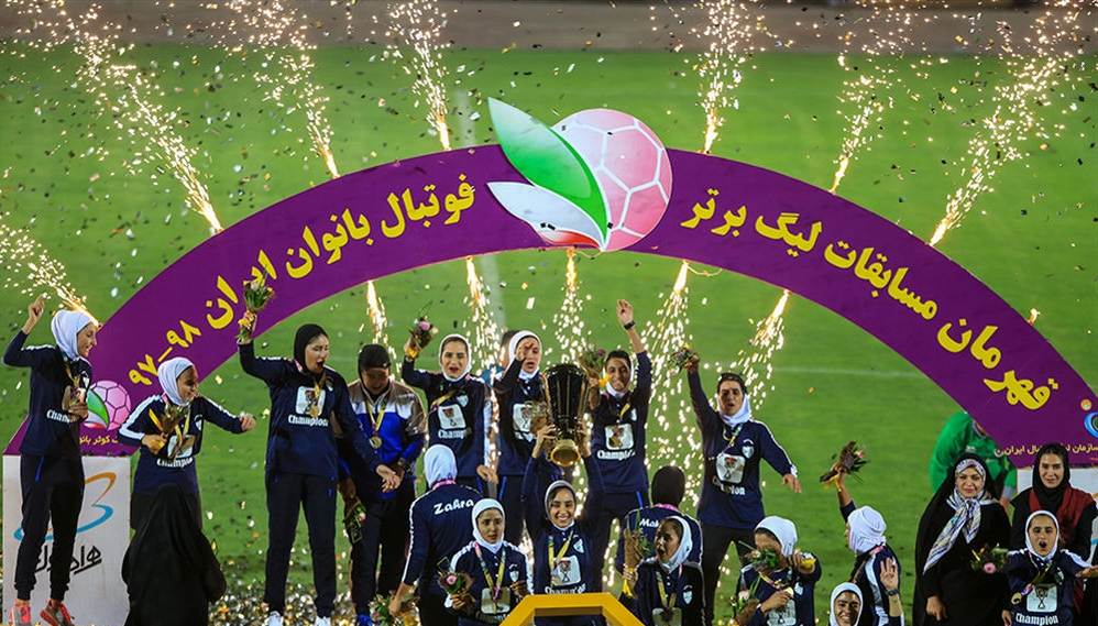 Iranian Football League 1397-98, Last game. Bam vs. Zob Ahan